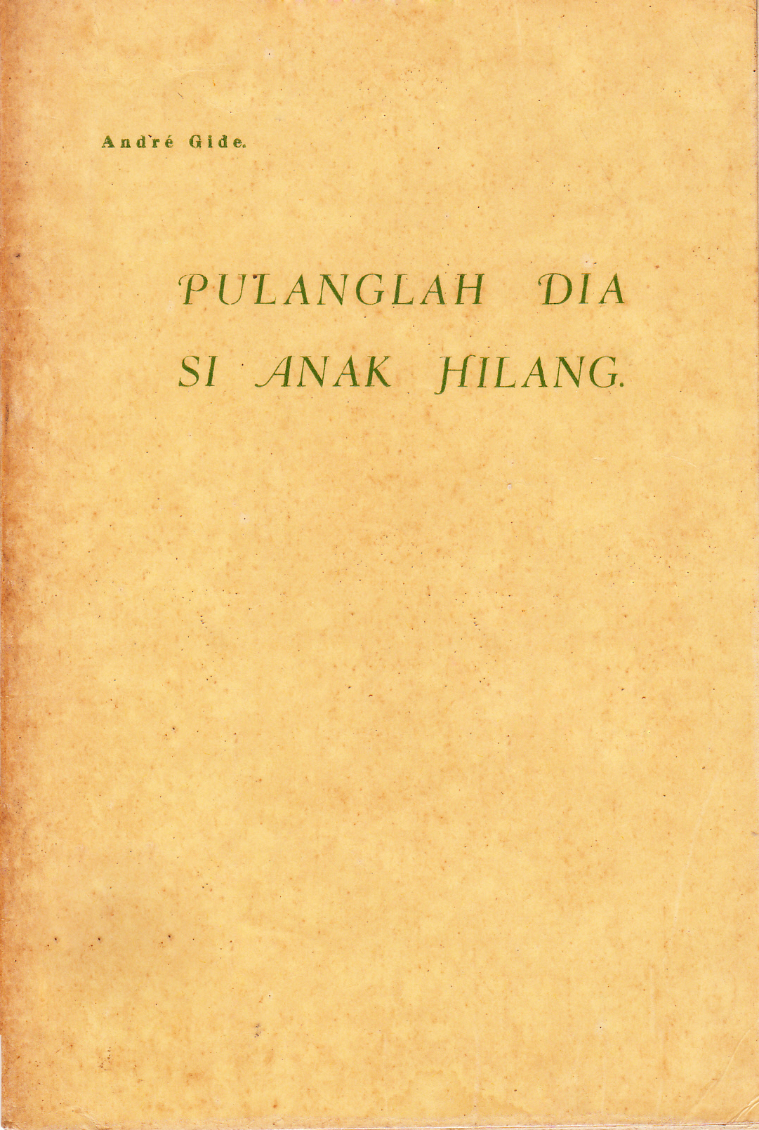 Cover for the first stand-alone edition of Pulanglah Dia Si Anak Hilang, Chairil Anwar's translation of "Le retour de l'enfant prodigue" by André Gide.